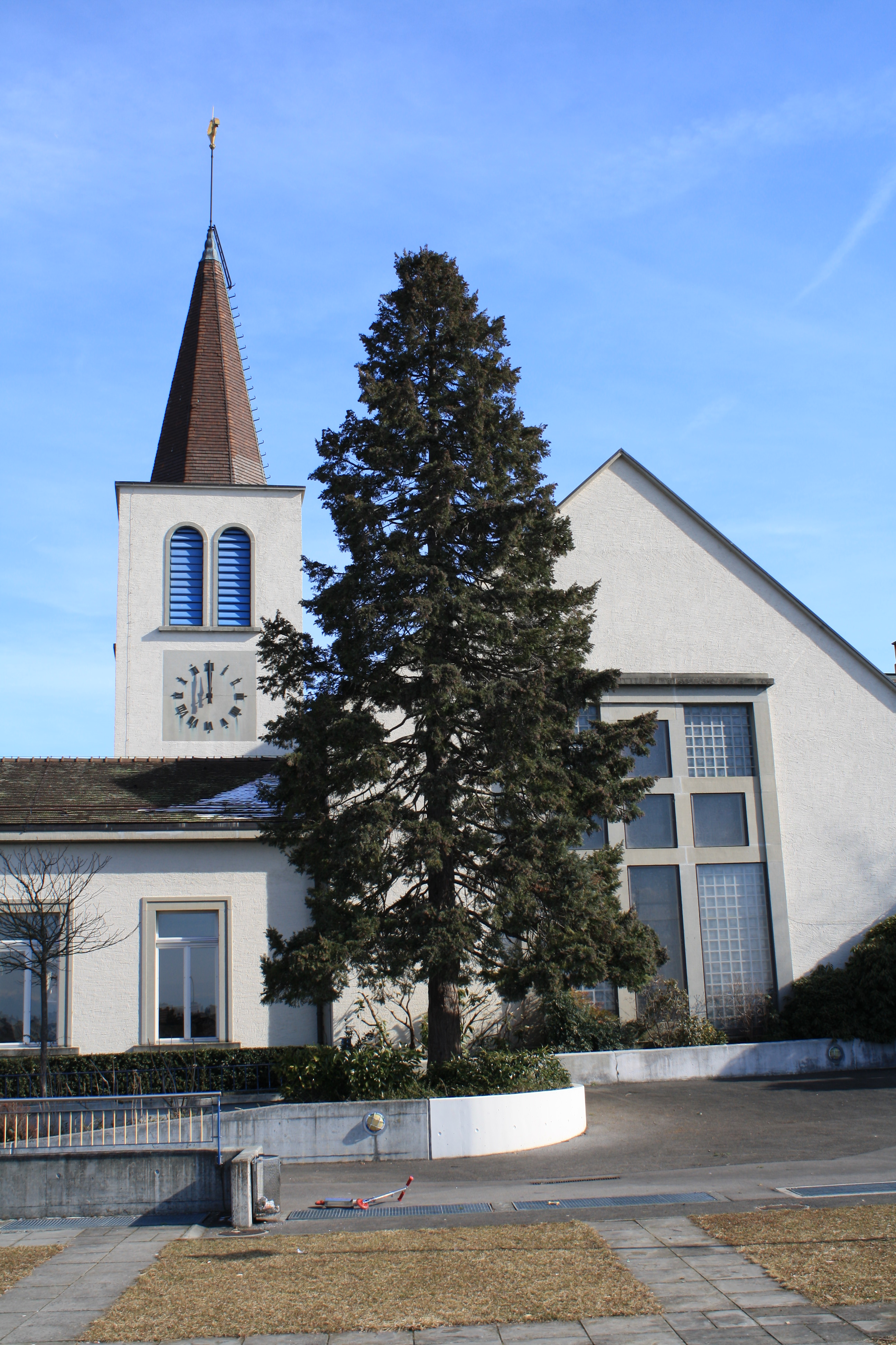 Reformed Church of Renens, Vaud, Switzerland